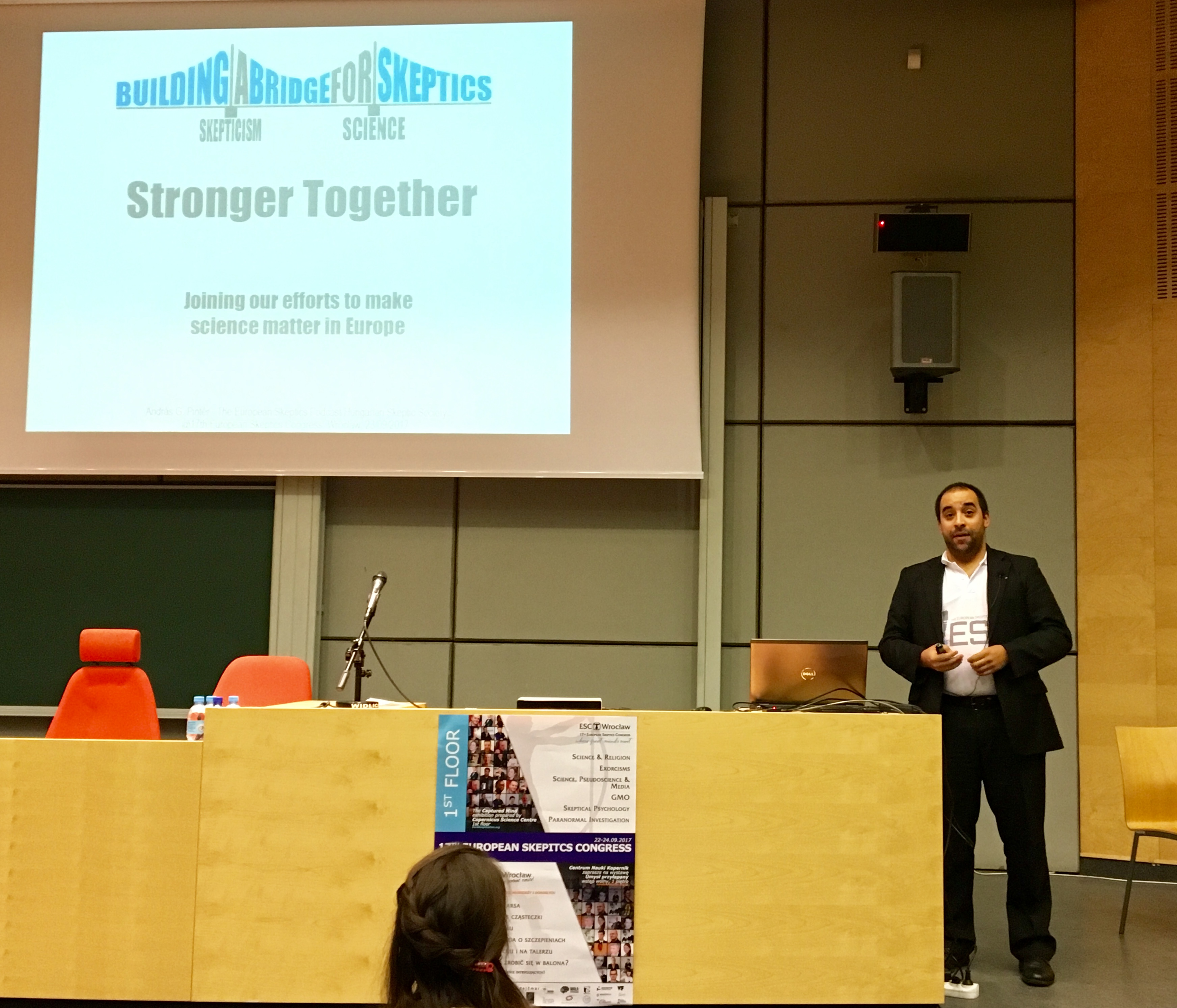 András Gábor Pintér during 17th European Skeptics Congress in Wrocław, Poland, 2017-09-23